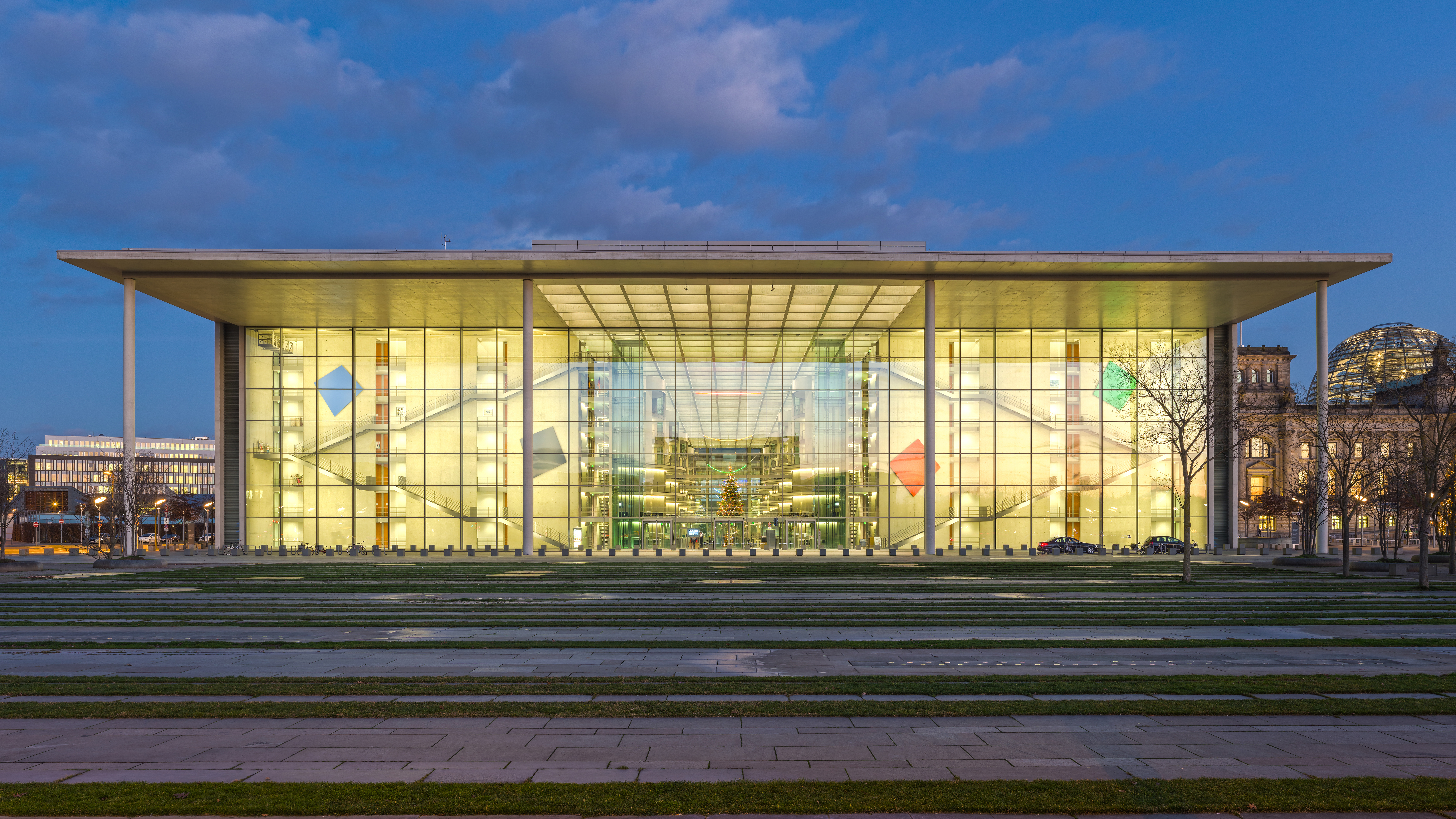 West facade of the Paul-Löbe-Haus in Berlin-Mitte during the blue hour. The building was designed by architect Stephan Braunfels and built between 1997 and 2002. It's one of the buildings of the German parliament. The picture shows two interesting details: First, the christmas tree inside the building can be seen. Second, you can see the reflection of the German chancellery ("Bundeskanzleramt") in the facade of the Paul-Löbe-Haus. The Bundeskanzleramt is located directly opposite.